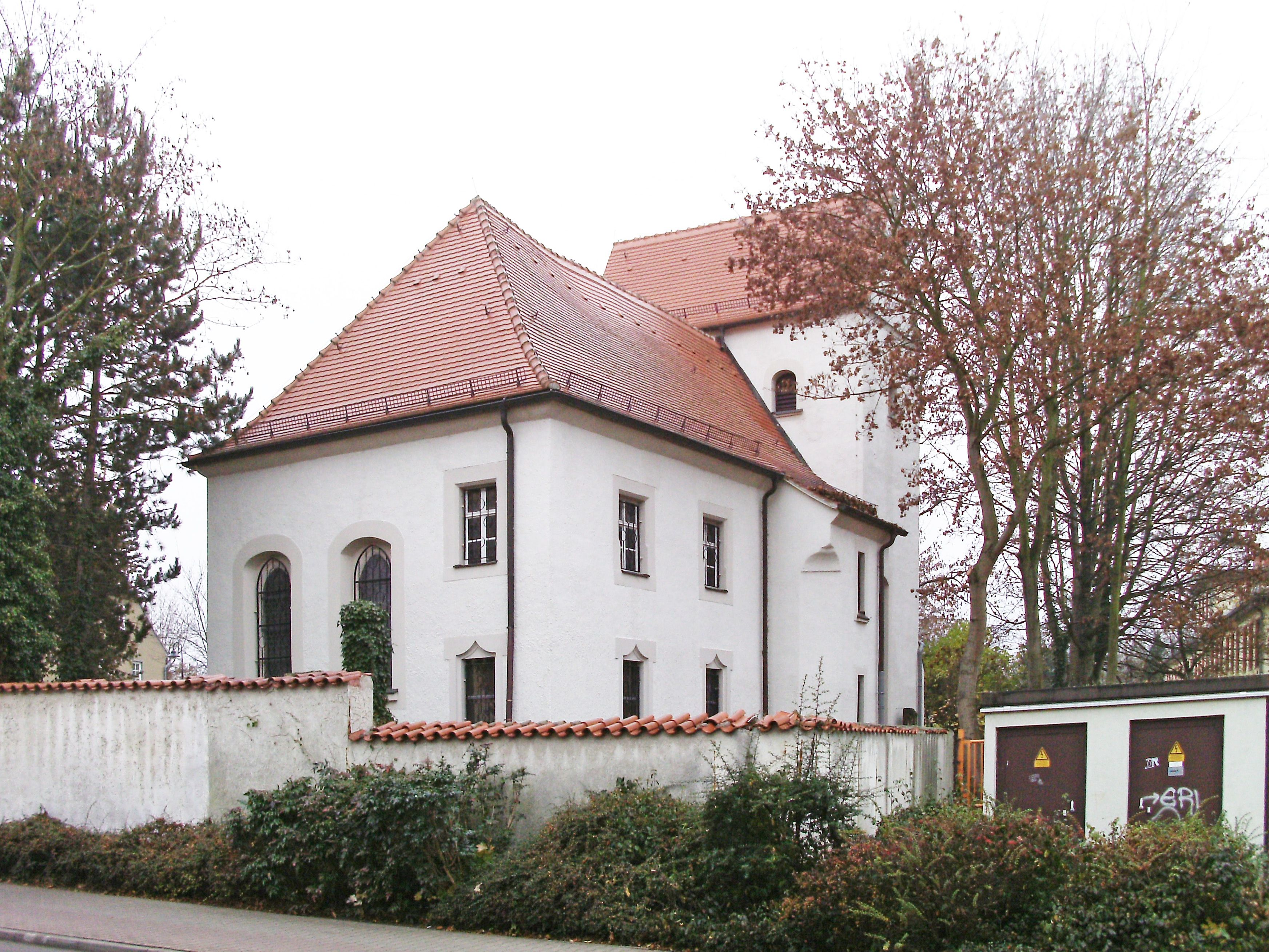 Lutheran St. Christopher Church in Böhlen (Leipzig district, Saxony)